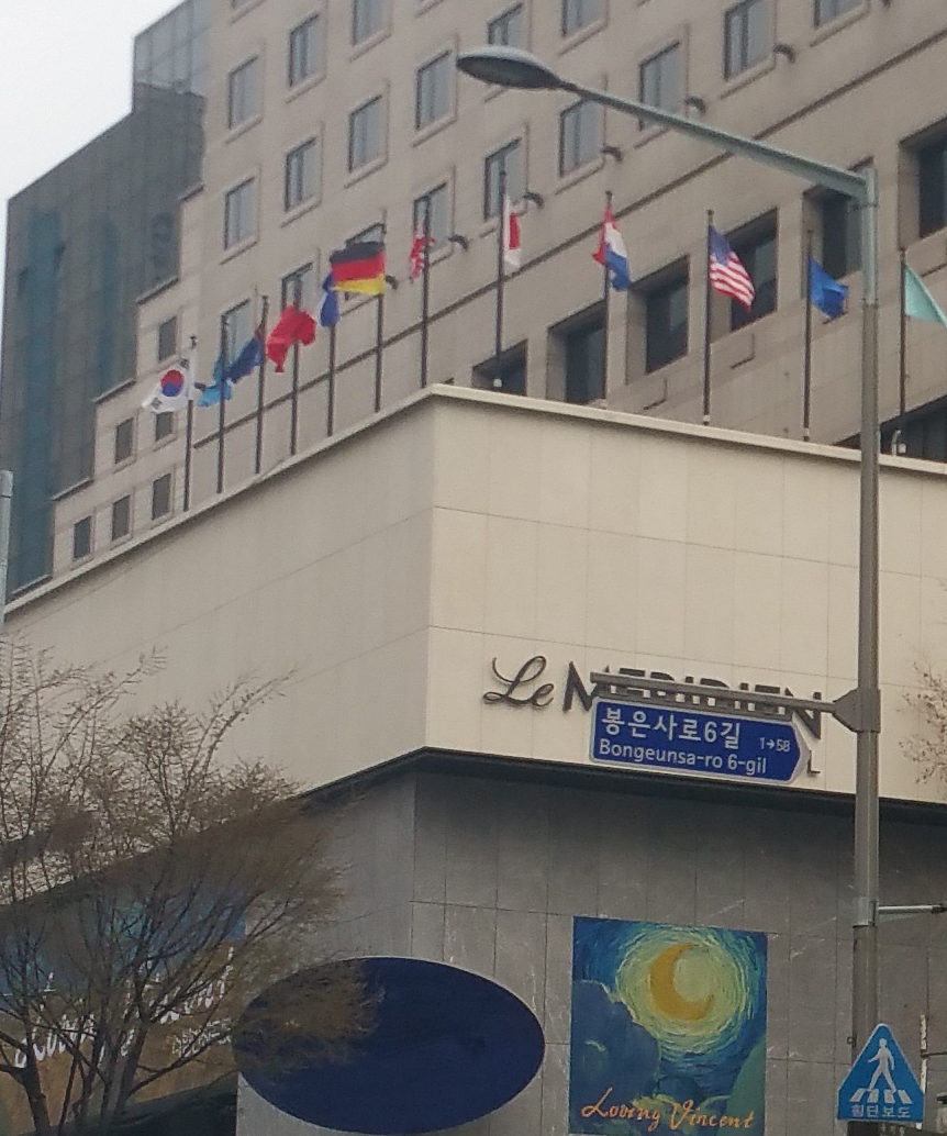 Bongeunsa-ro, Yeoksam-dong, Gangnam-gu, Seoul